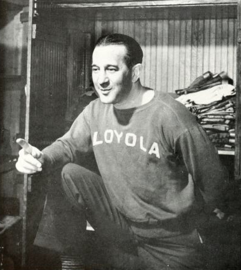 Loyola University Chicago basketball coach and athletic director Lenny Sachs from the 1938 “Loyolan” yearbook.